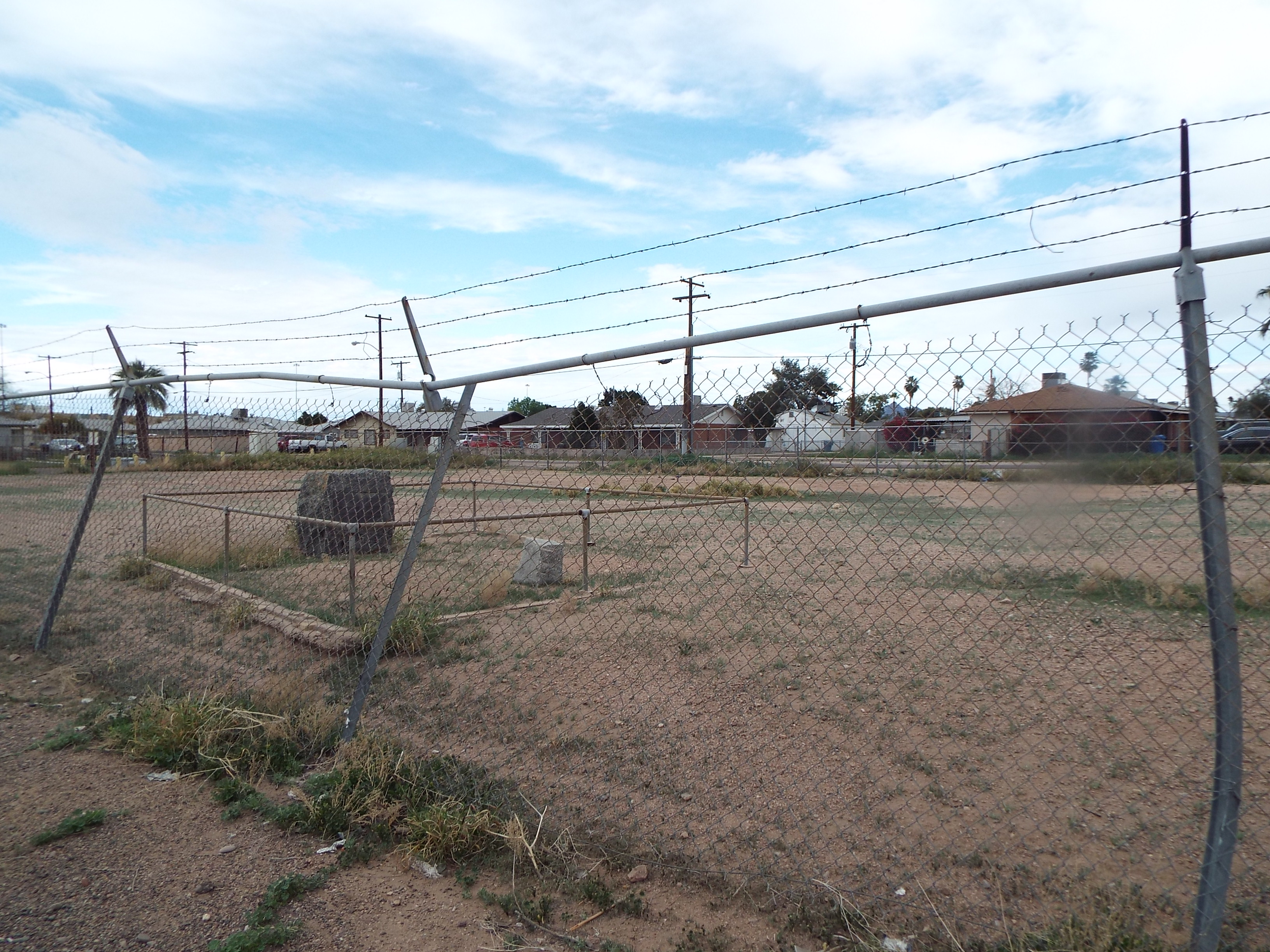 The cemetery historic Phoenix Crosscut Cemetery, which is owned by the descendants of the Williams family, has a chained-linked fence with barbered wire surrounding it. It may be the oldest cemetery in Phoenix.